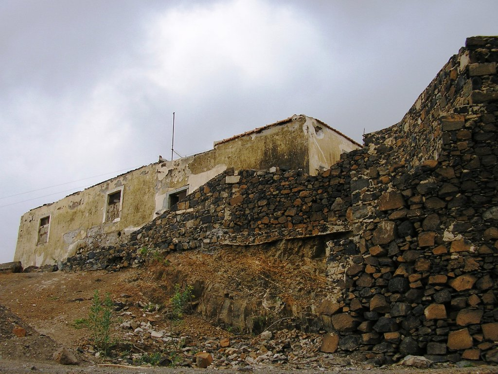 "Fortim" in Mindelo town, São Vicente island, Cape Verde